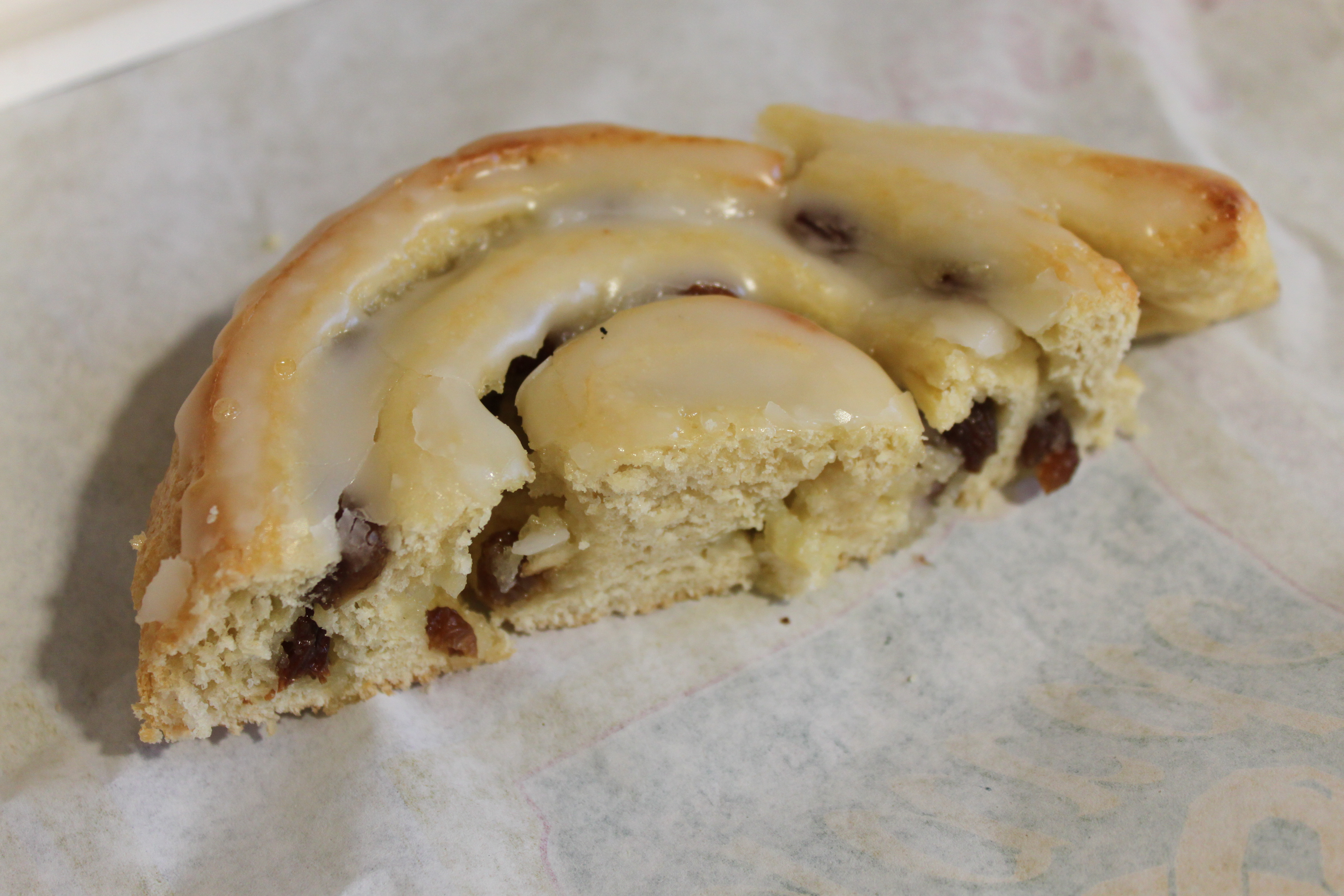 Raisin roll with powdered sugar glaze, made of yeast dough